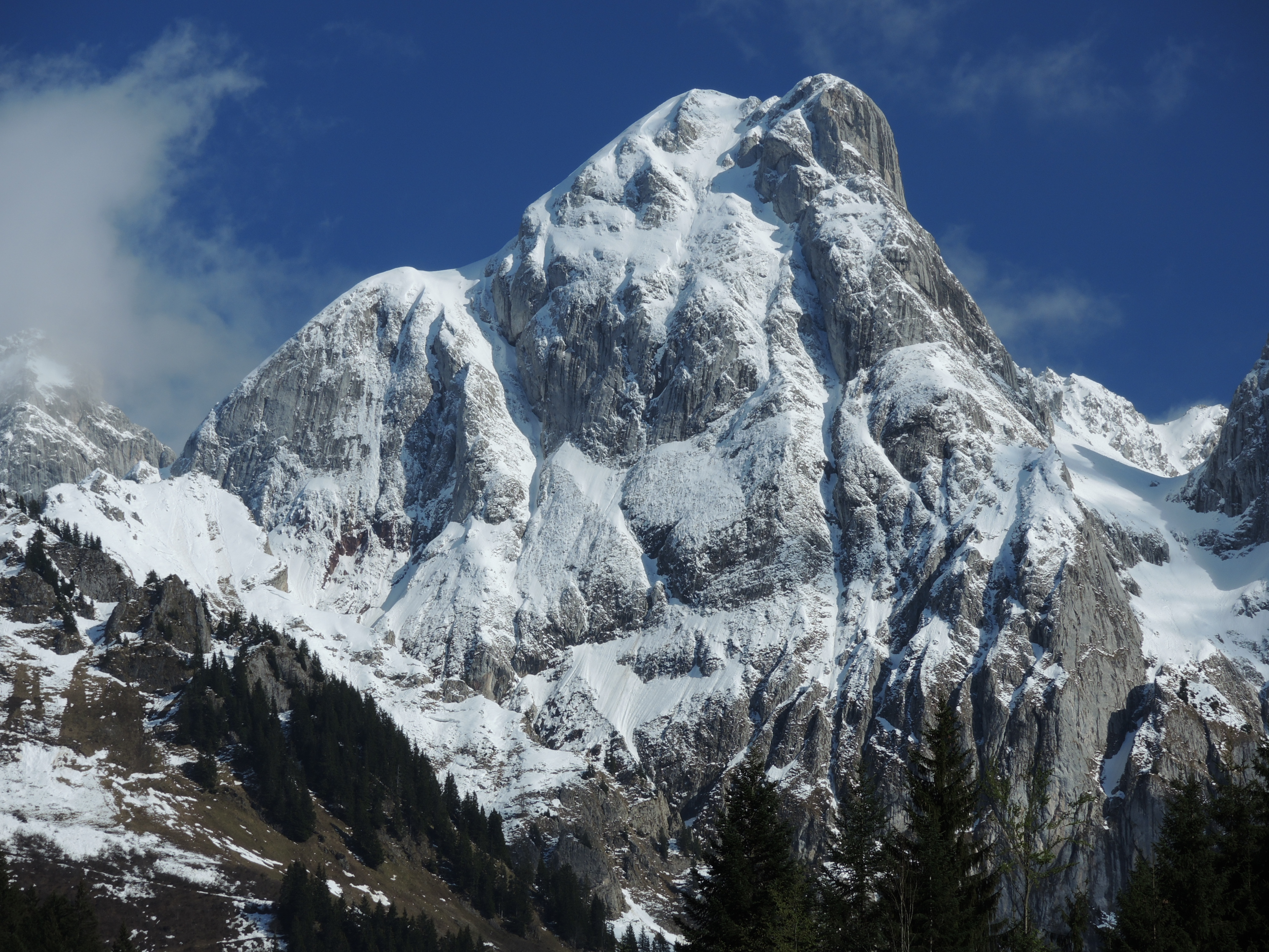 Gummfluh, Château-d'Oex (Le Pratey)